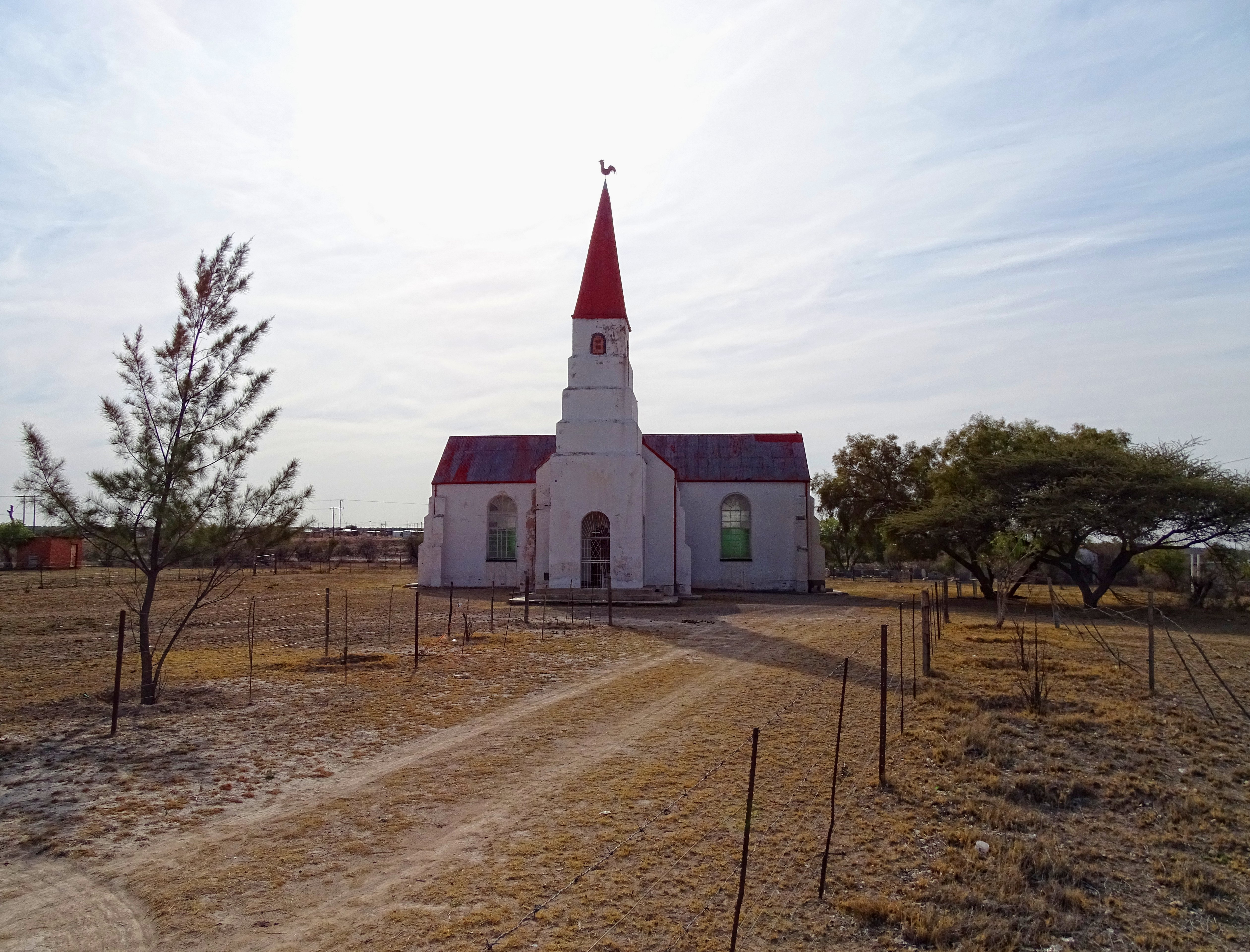 The church located at the northern end of Green Street in Campbell, Northern Cape, South Africa